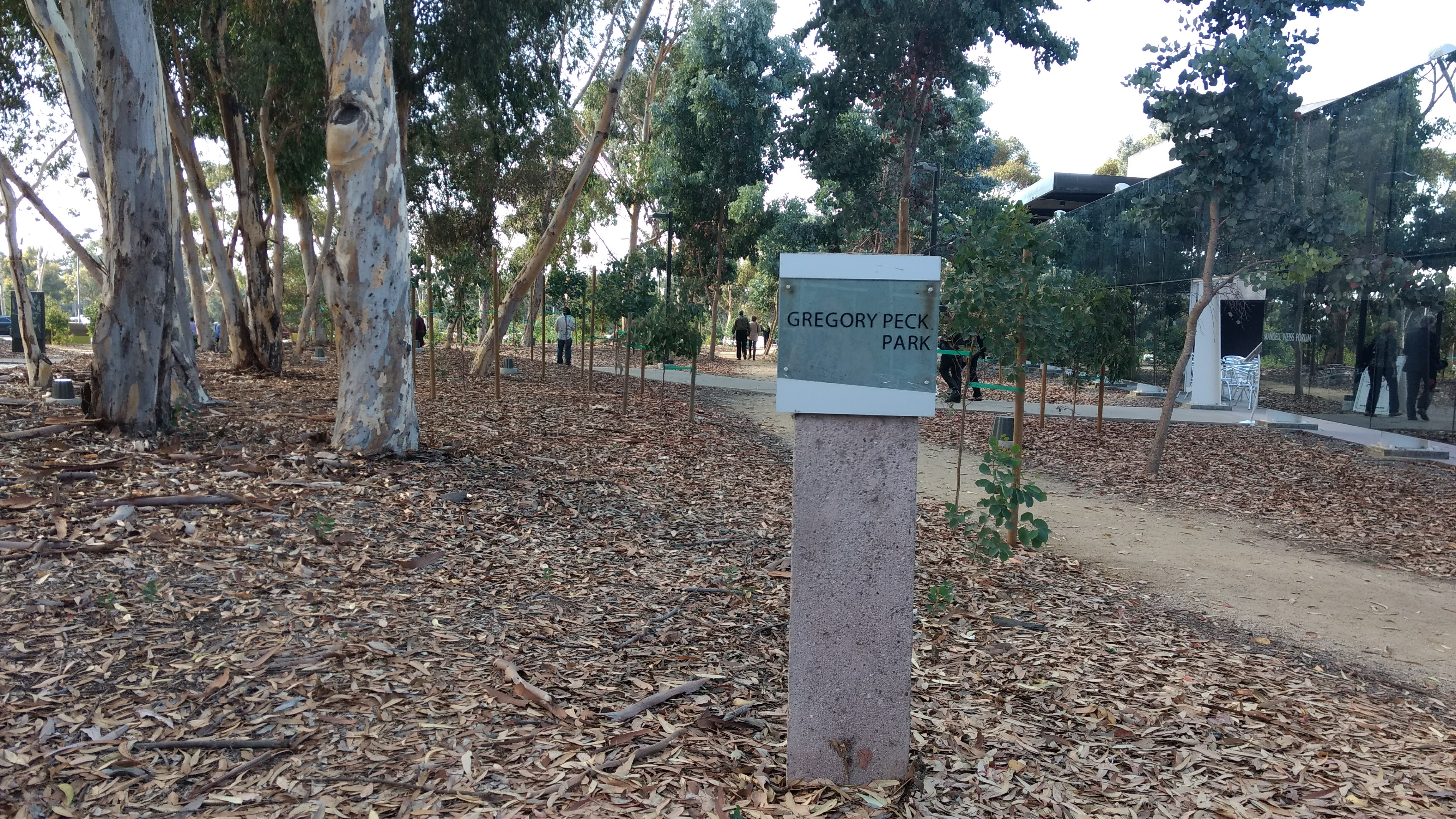 La Jolla Playhouse theater, Gregory Peck Park in front of the theater